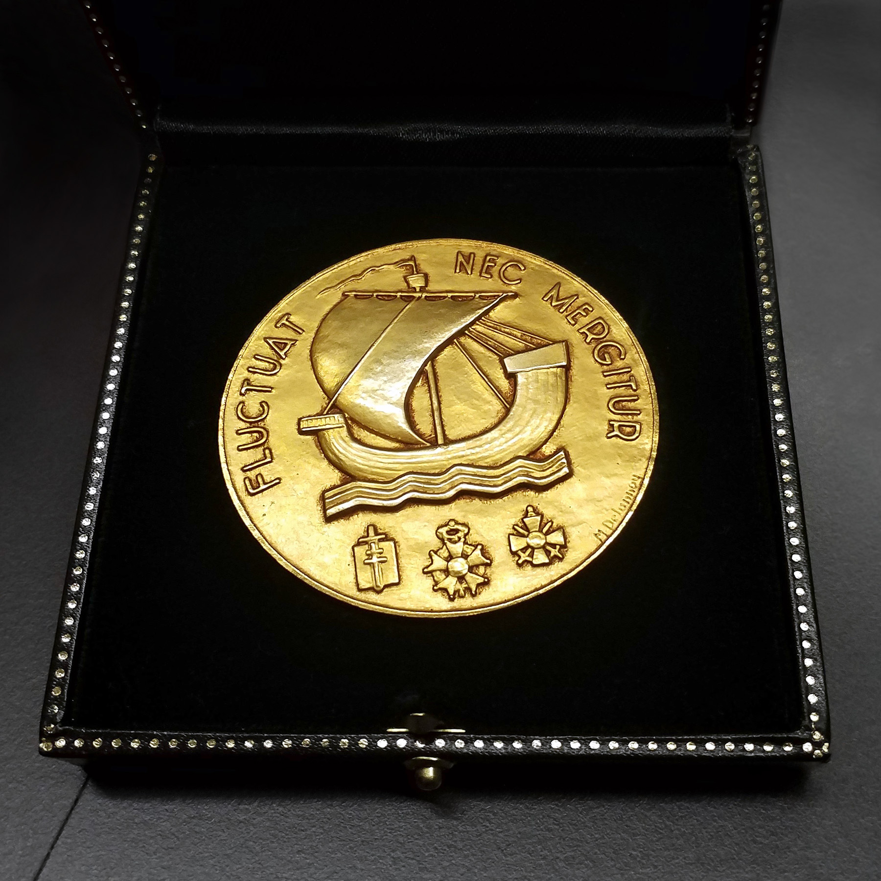 Médaille de la Ville de Paris - Pei-Yu Chang 1997